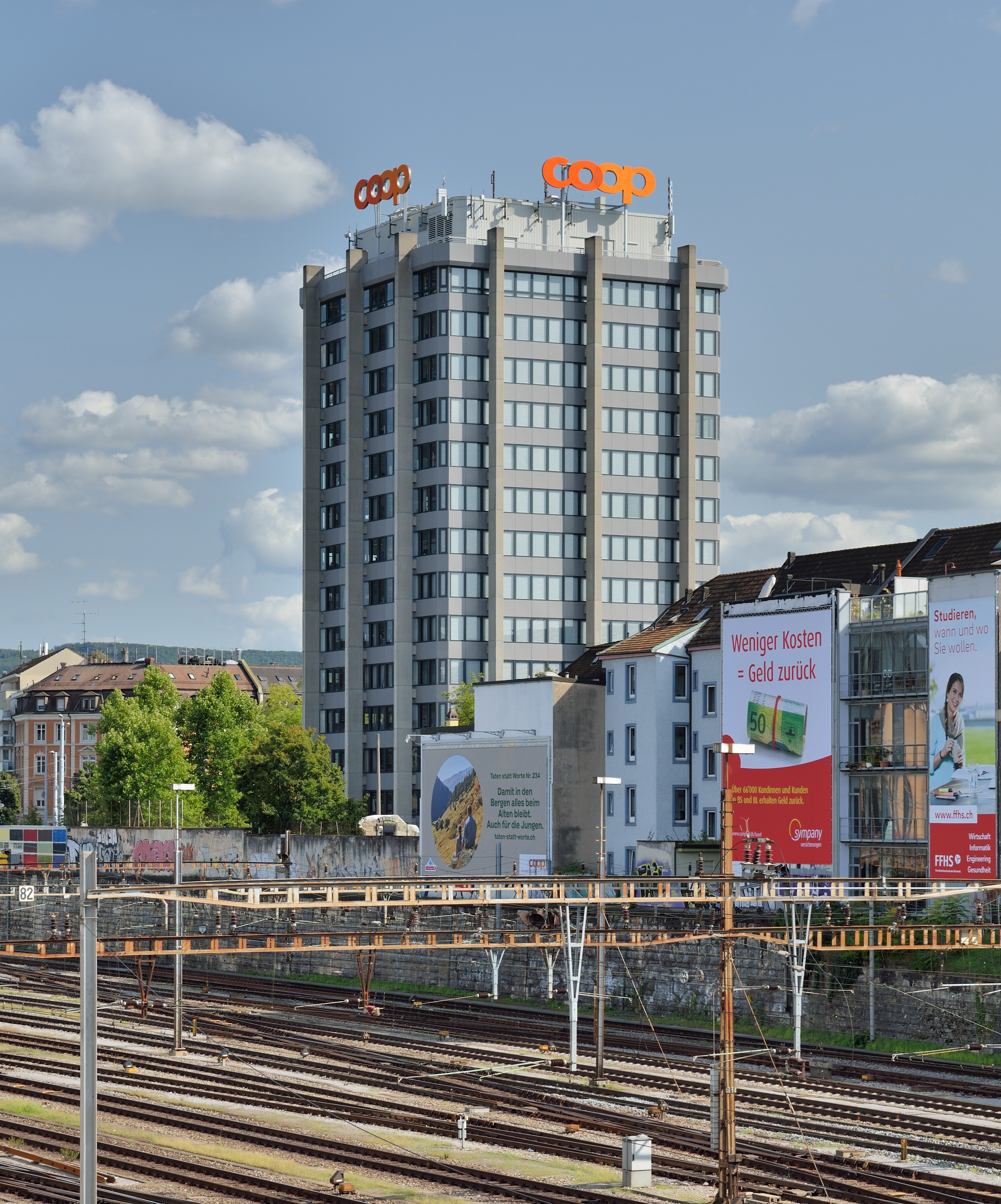 Basel: Coop building